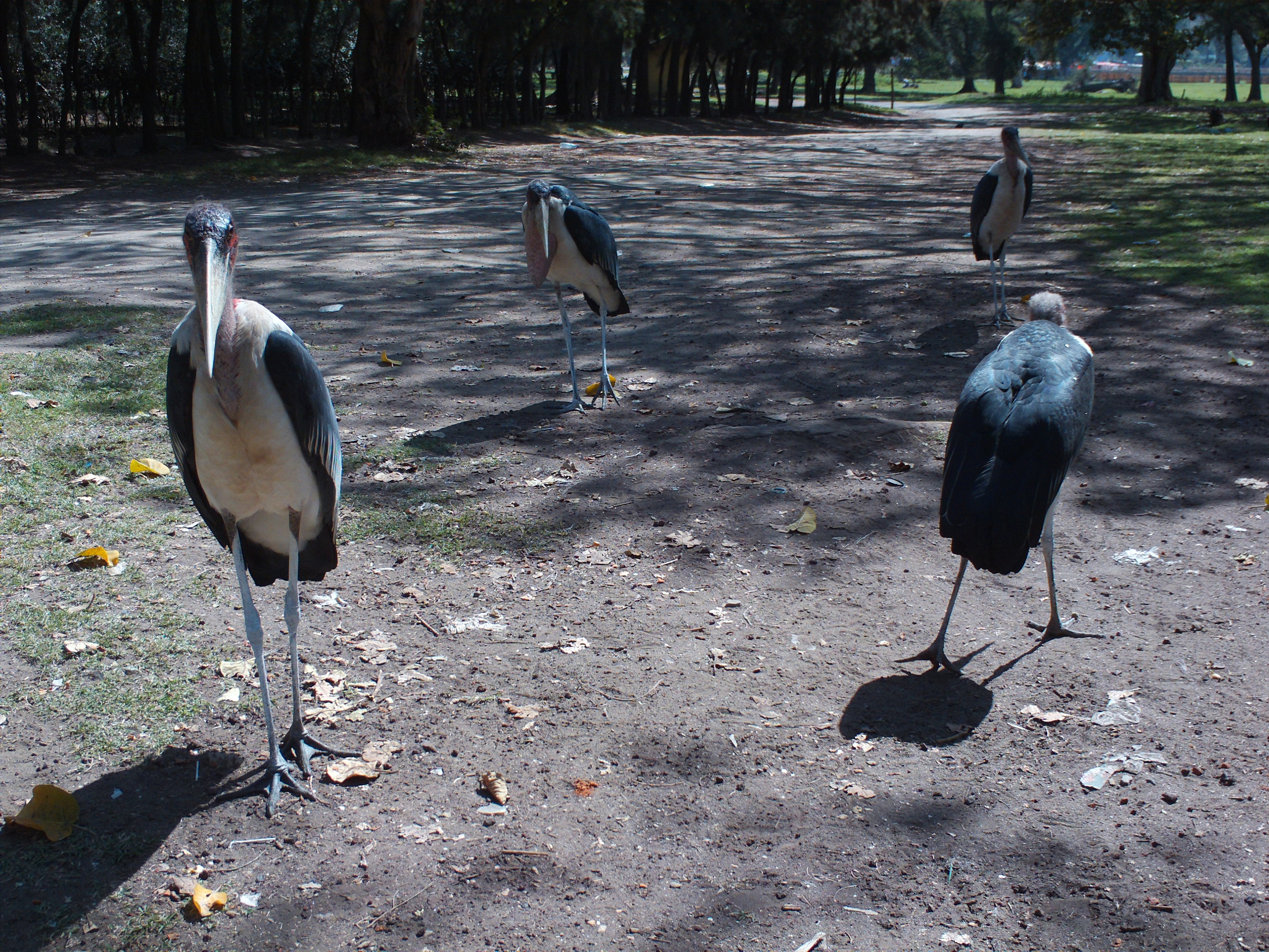 January 6, 2010. Awasa, Ethiopia. Marabou storks at Lake Awasa.